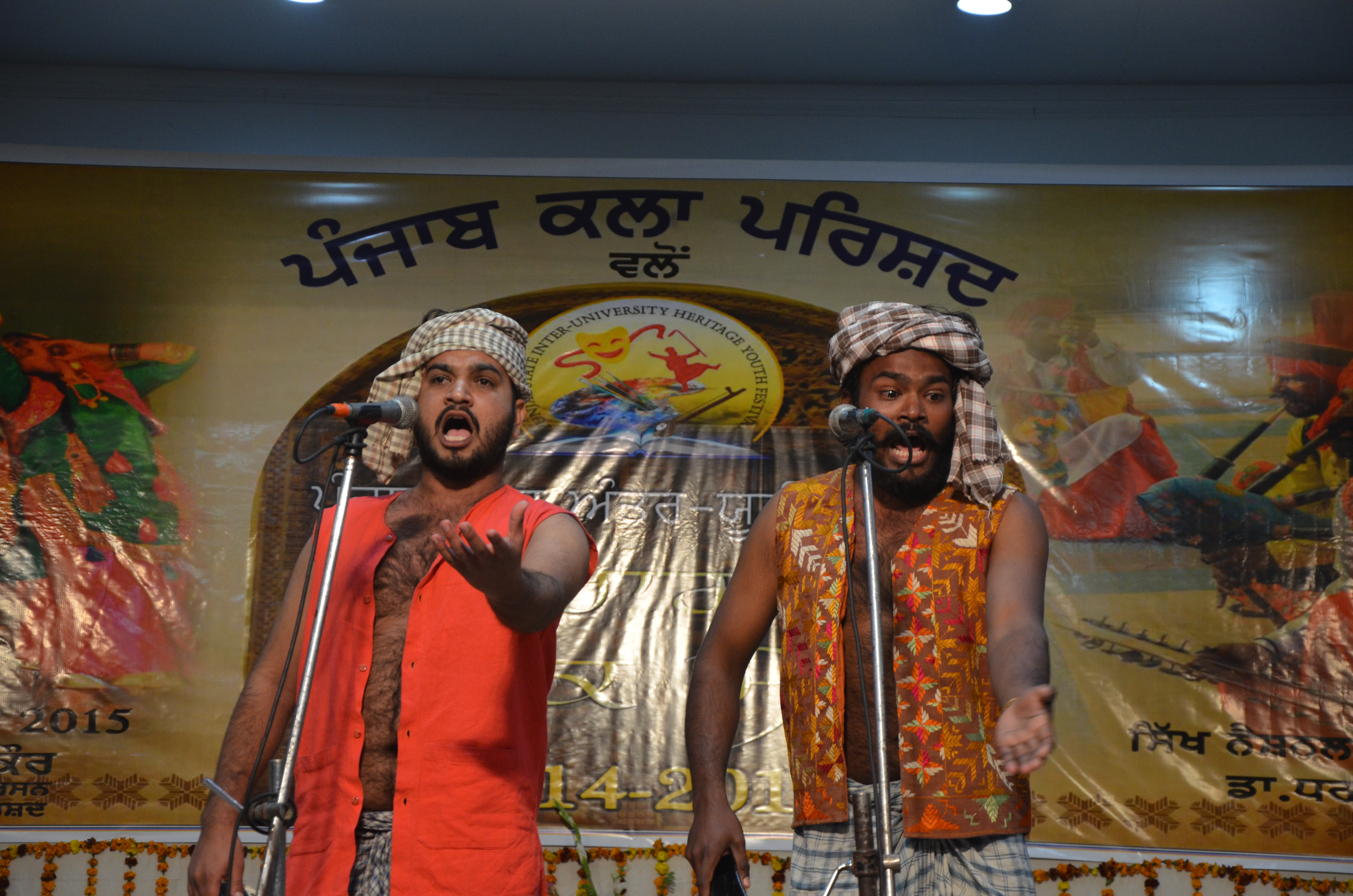 bhand